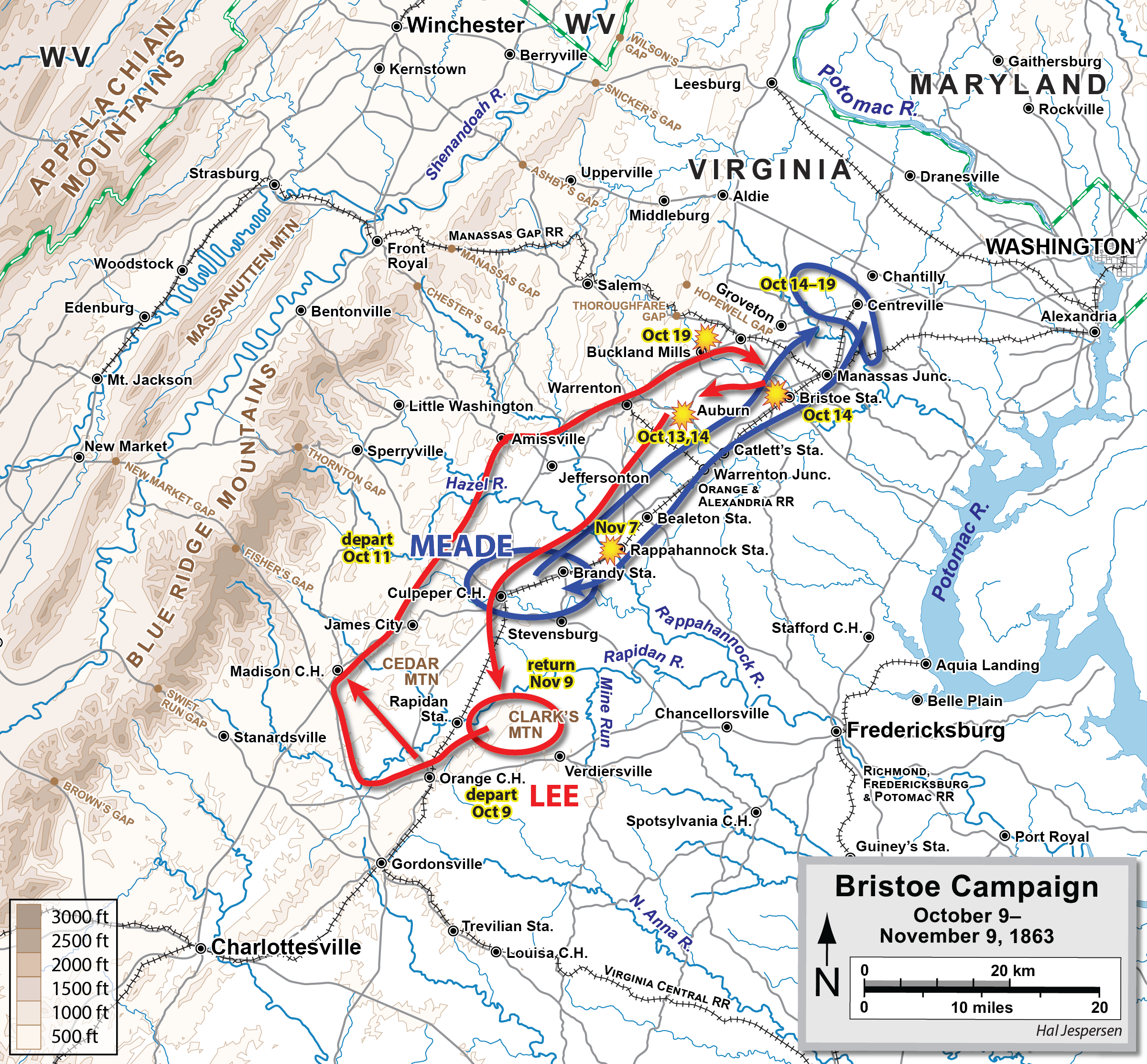 Map of the Bristoe Campaign of the American Civil War. Drawn in Adobe Illustrator CS6 by Hal Jespersen. Graphic source file is available at